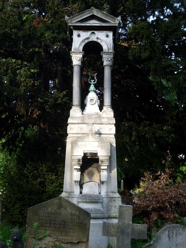 Alfred Mellon funerary monument, Brompton Cemetery, London Wikidata has entry Q27087560 with data related to this item.